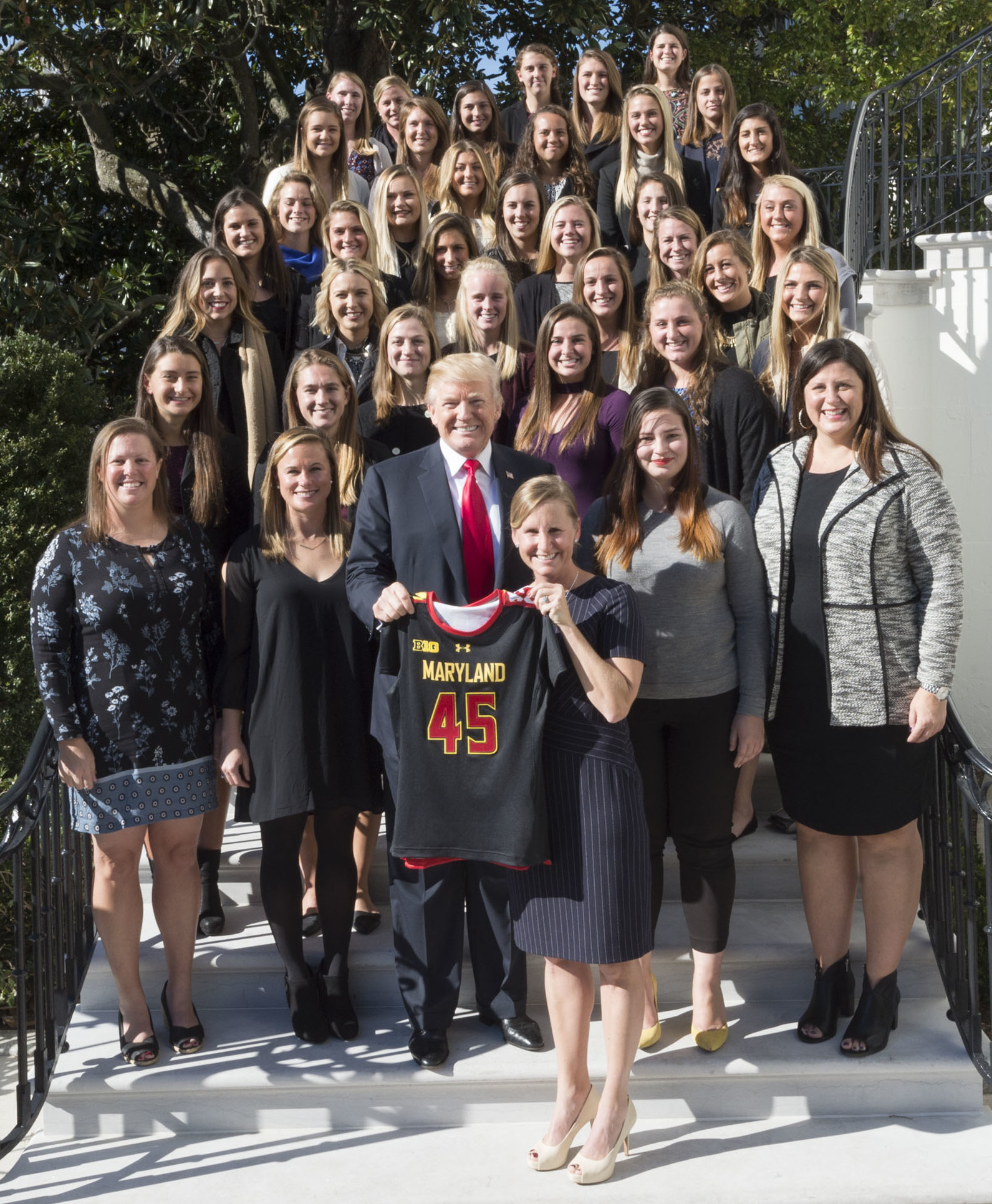 President Donald J. Trump and the University of Maryland women's lacrosse NCAA National Championship Team pose on November 17, 2017 outside The White House